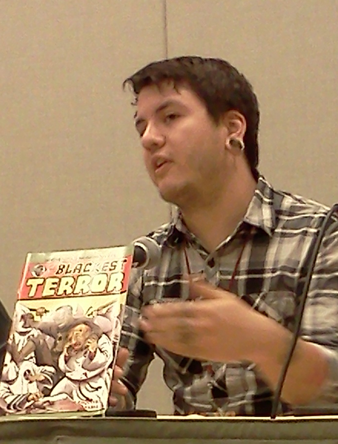 Eric M. Esquivel with his book the Blackest Terror at Phoenix Comic Con in 2012.